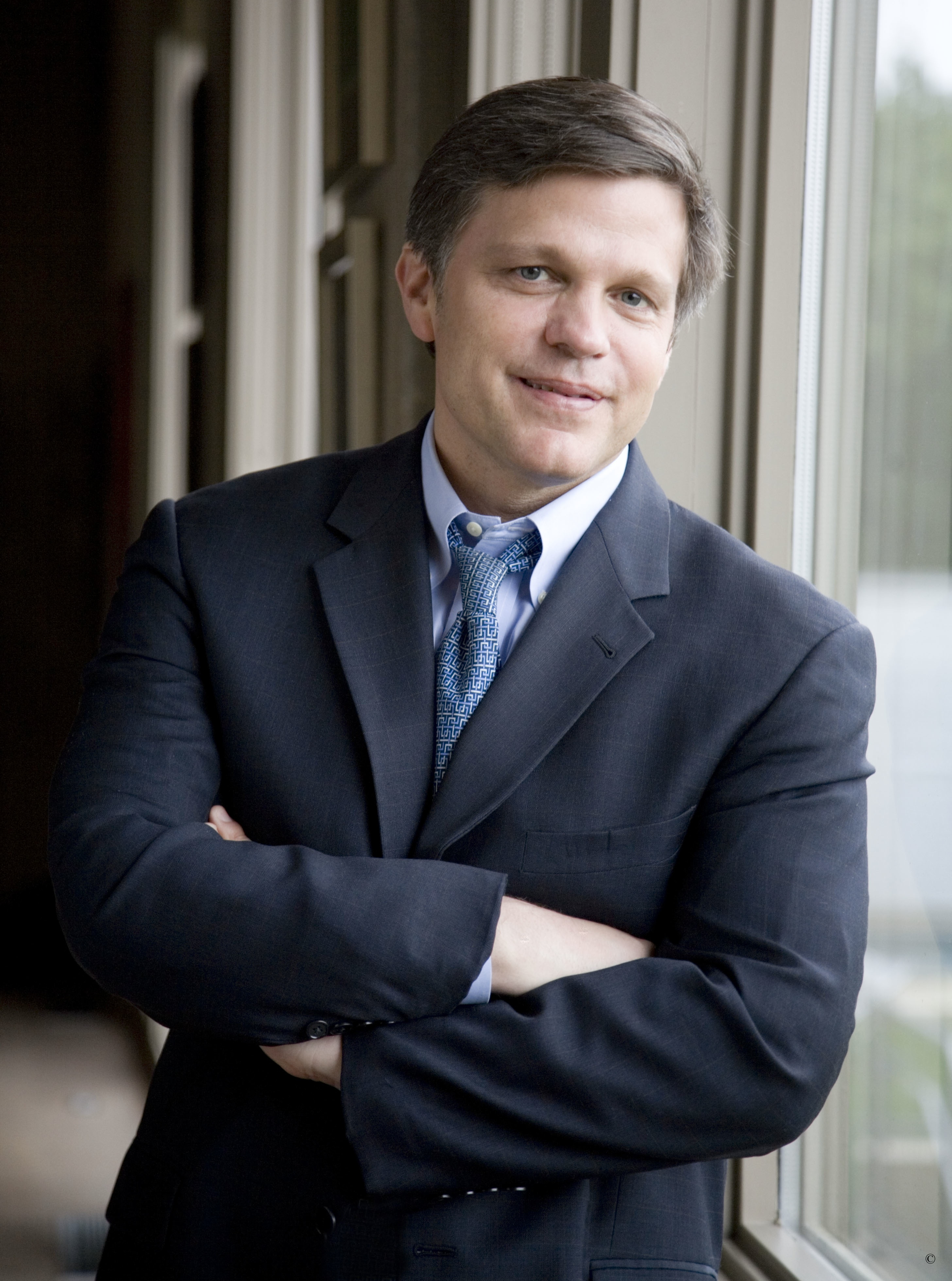 Author and History Professor Douglas Brinkley in 2007